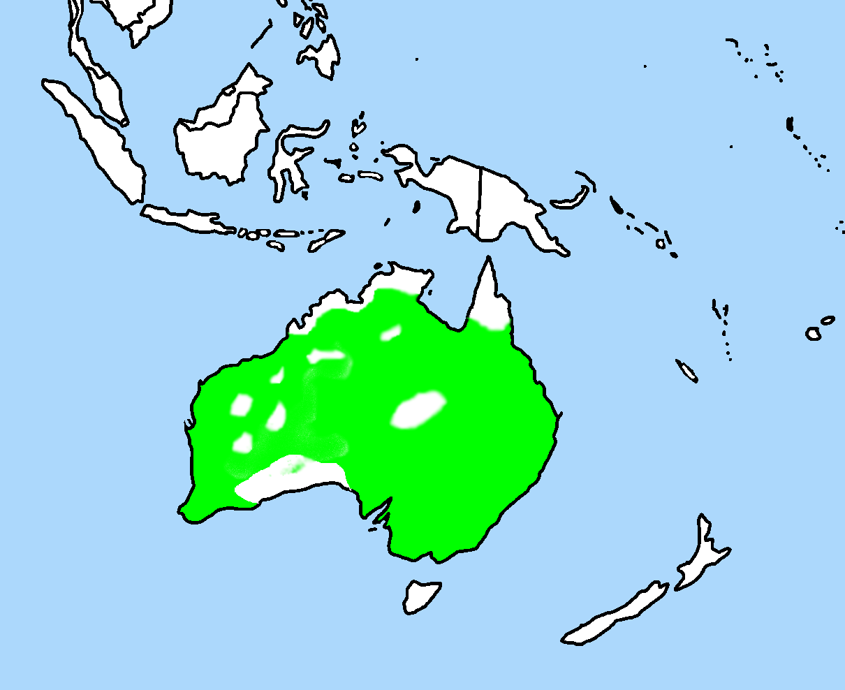 Author is Ulrich Prokop (Scops) Drawn after [1]